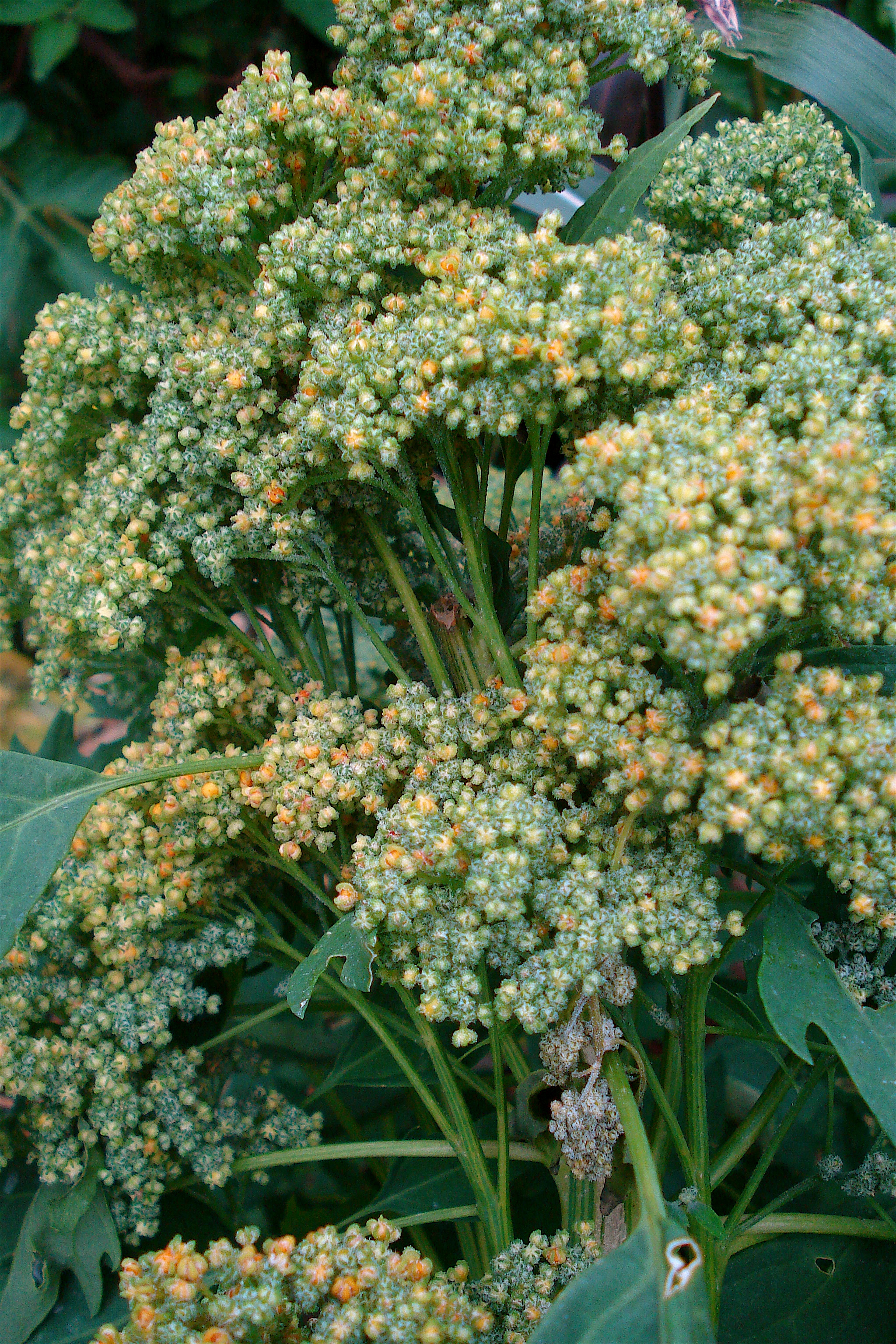 Chenopodium quinoa before flowering